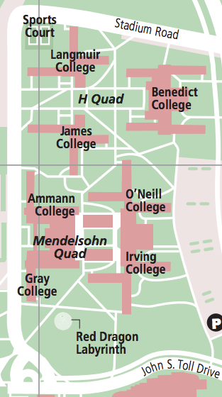 A Portion of the Stony Brook University map displaying H-Quad and Mendelssohn Quad